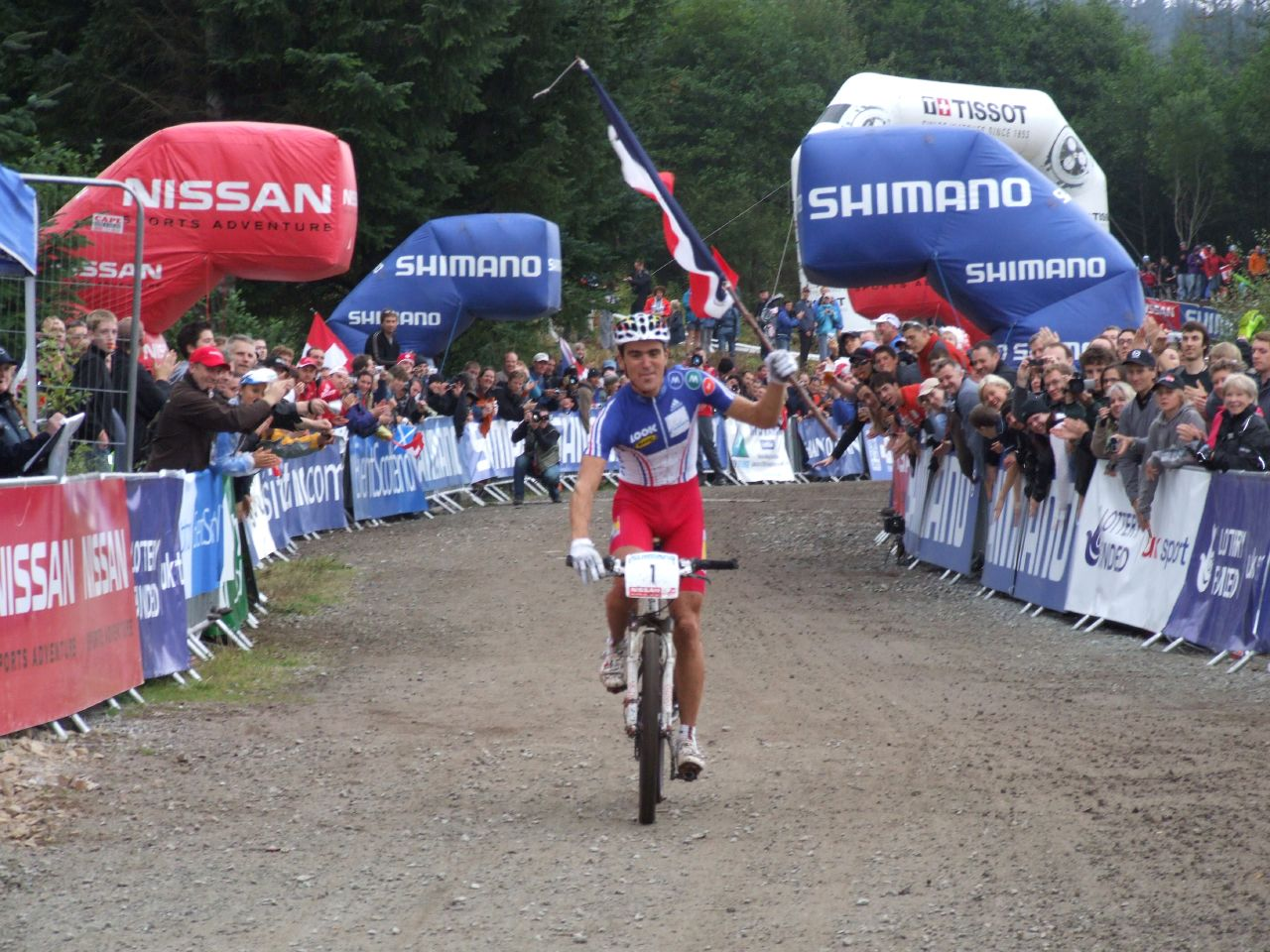 Julien Absalon world champion 2007